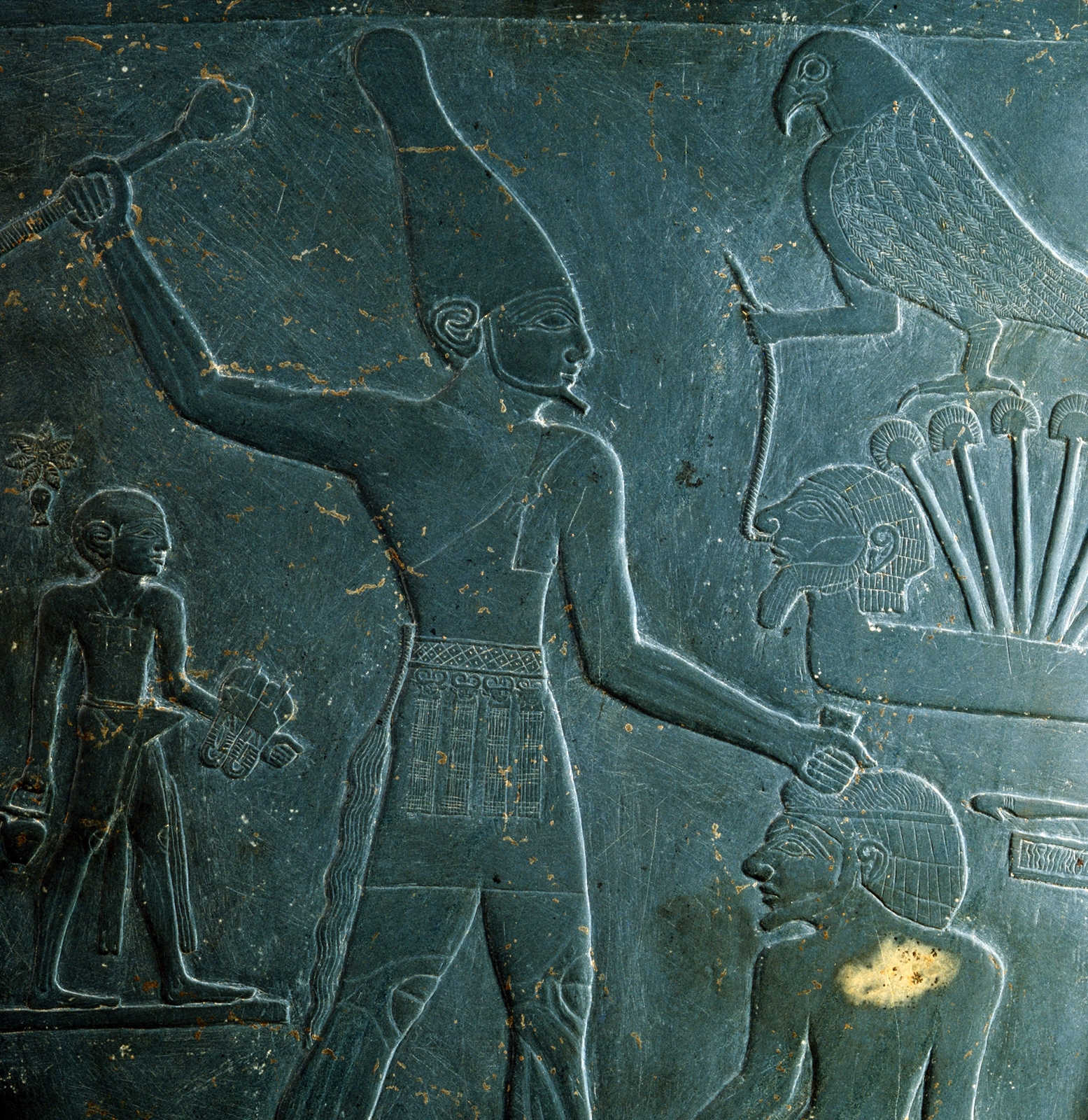 Narmer Palette (Detail)